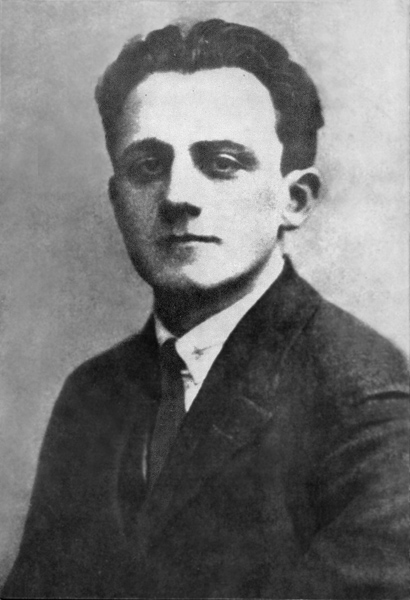 Emanuel Ringelblum was Jewish historian, chronicler of Warsaw Ghetto